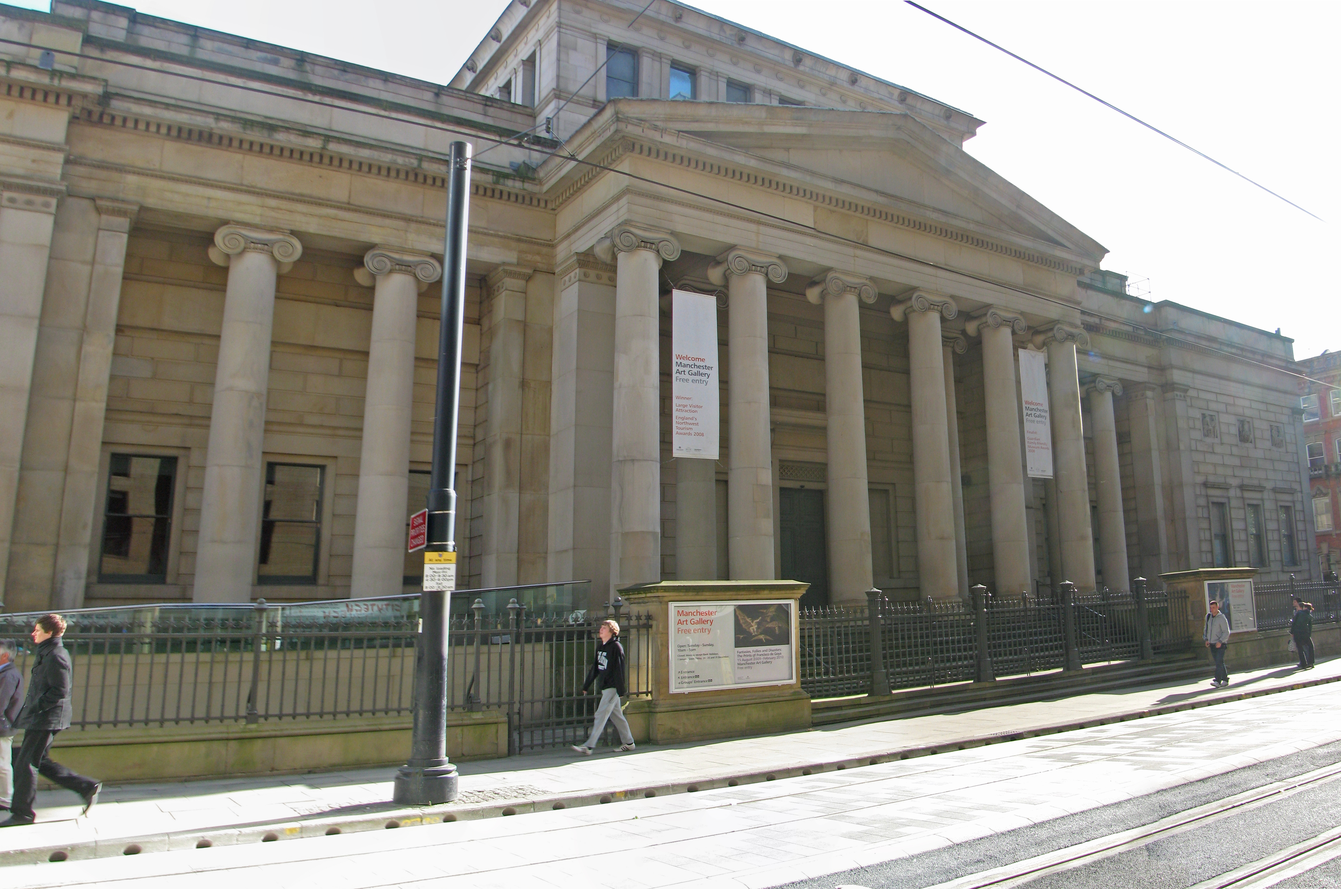 Manchester Art Gallery's main entrance along Mosley Street